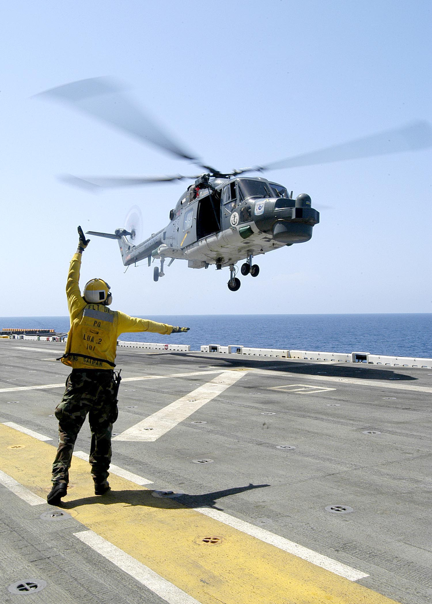 Aviation Boatswain’s Mate Handler 2nd Class Keary Young directs a German Sea Lynx MK88 helicopter to lift off the fight deck of amphibious assault ship USS Saipan (LHA 2) following a brief visit from Commander Task force One Five Zero (CTF-150). Saipan is currently on deployment in the Fifth Fleet area of responsibility conducting maritime security operations (MSO) in the Gulf of Aden, Gulf of Oman, Arabian Sea, Red Sea, and Indian Ocean. MSO help set the conditions for security and stability in the maritime environment, as well as complement the counter-terrorism and security efforts of regional nations.